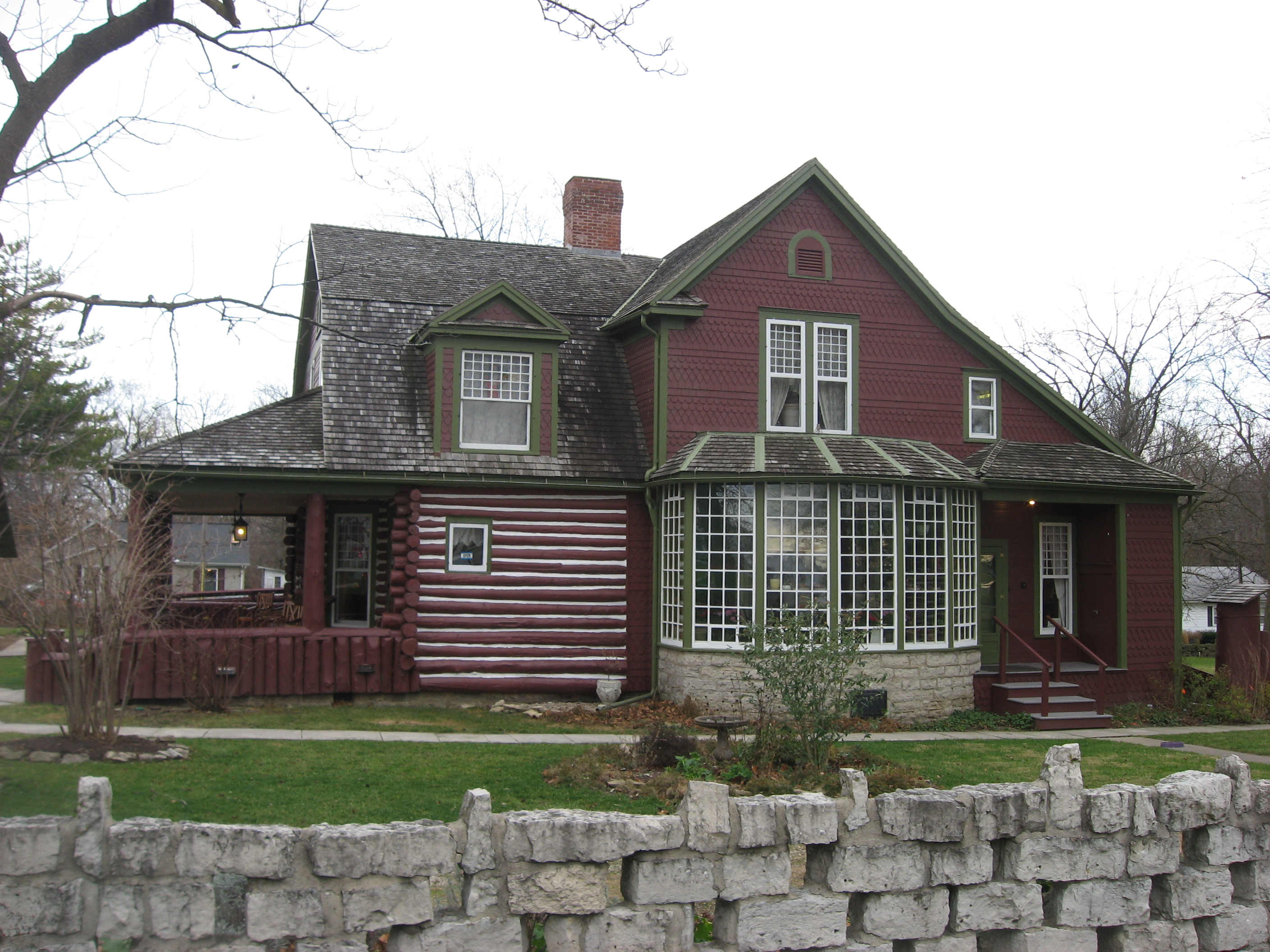 Western side of the Gene Stratton Porter Cabin, located at 200 E. Sixth Street in Geneva, Indiana, United States. Built in 1895 as the home of author Gene Stratton-Porter, it is the center of Limberlost State Historic Site, and it is listed on the National Register of Historic Places.